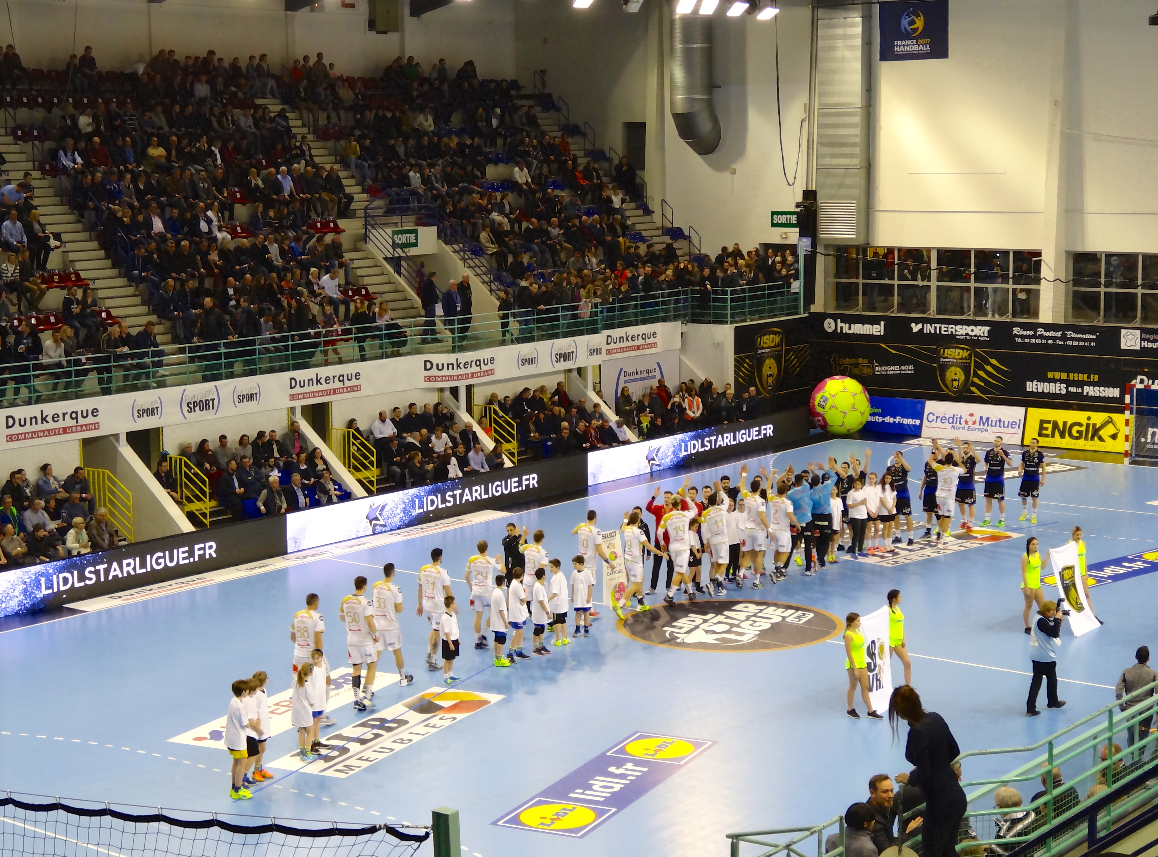 Dunkerque vs Saint-Raphaël 2017 Handball